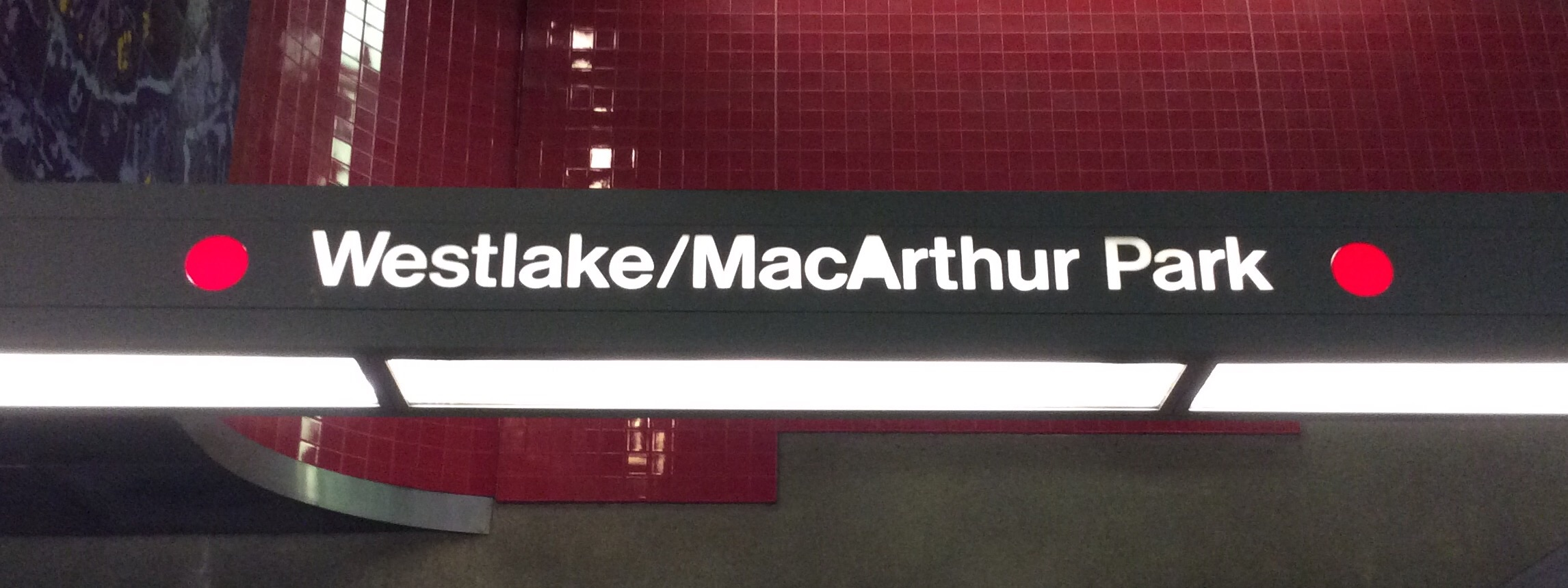 The signage for Westlake/MacArthur Park Station.